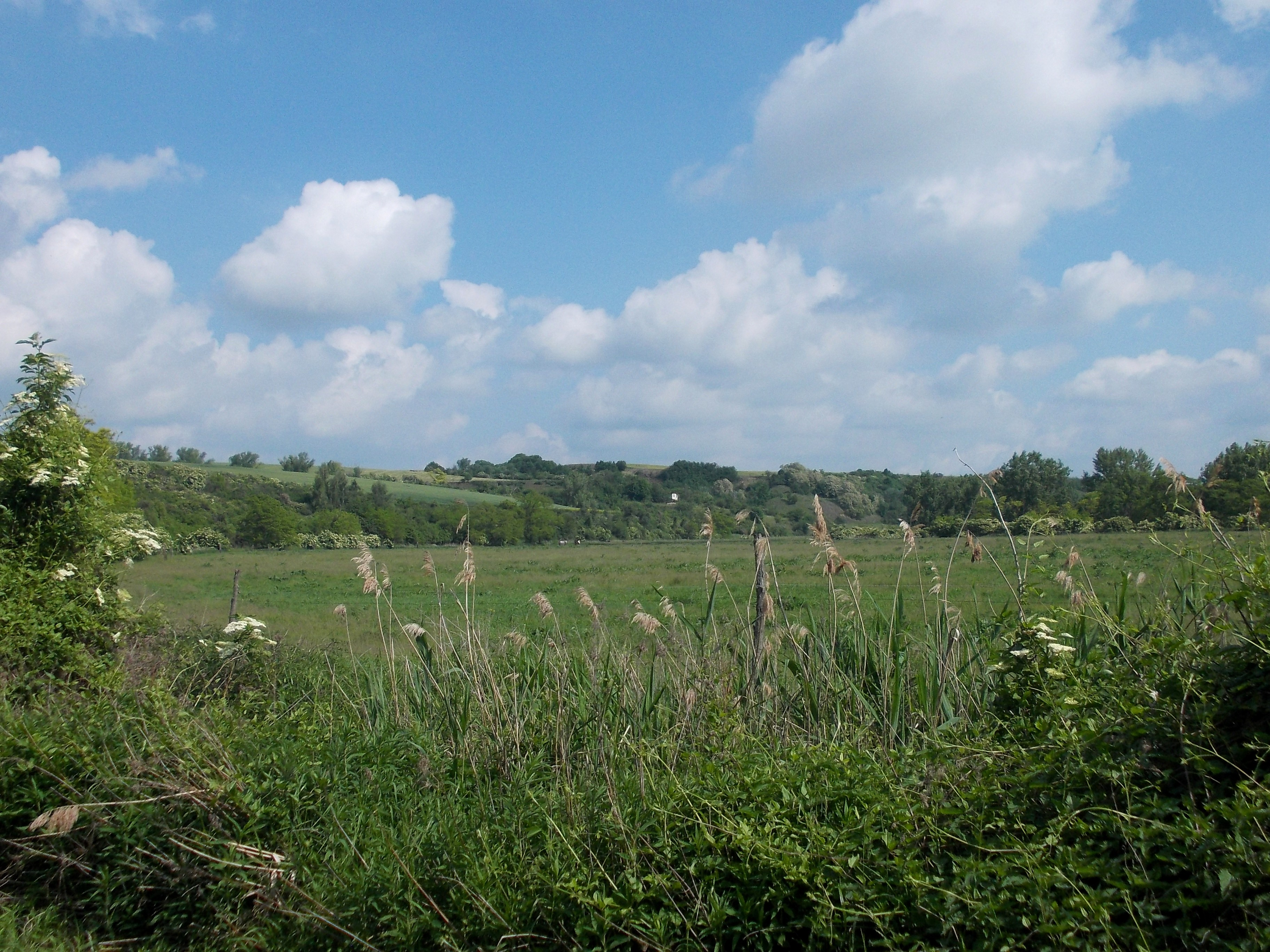 In the nature reserve "Salzatal zwischen Langenbogen und Köllme" (district: Saalekreis, Saxony-Anhalt)